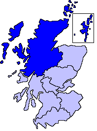 Map of Northern police district